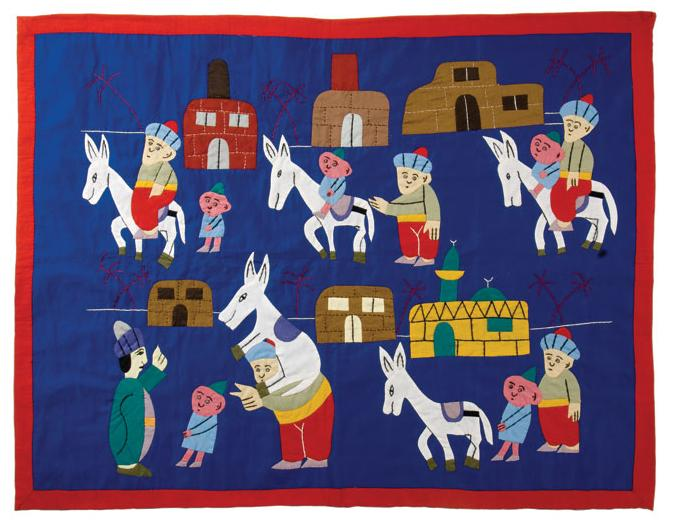 A Goha story cloth in the permanent collection of The Children’s Museum of Indianapolis